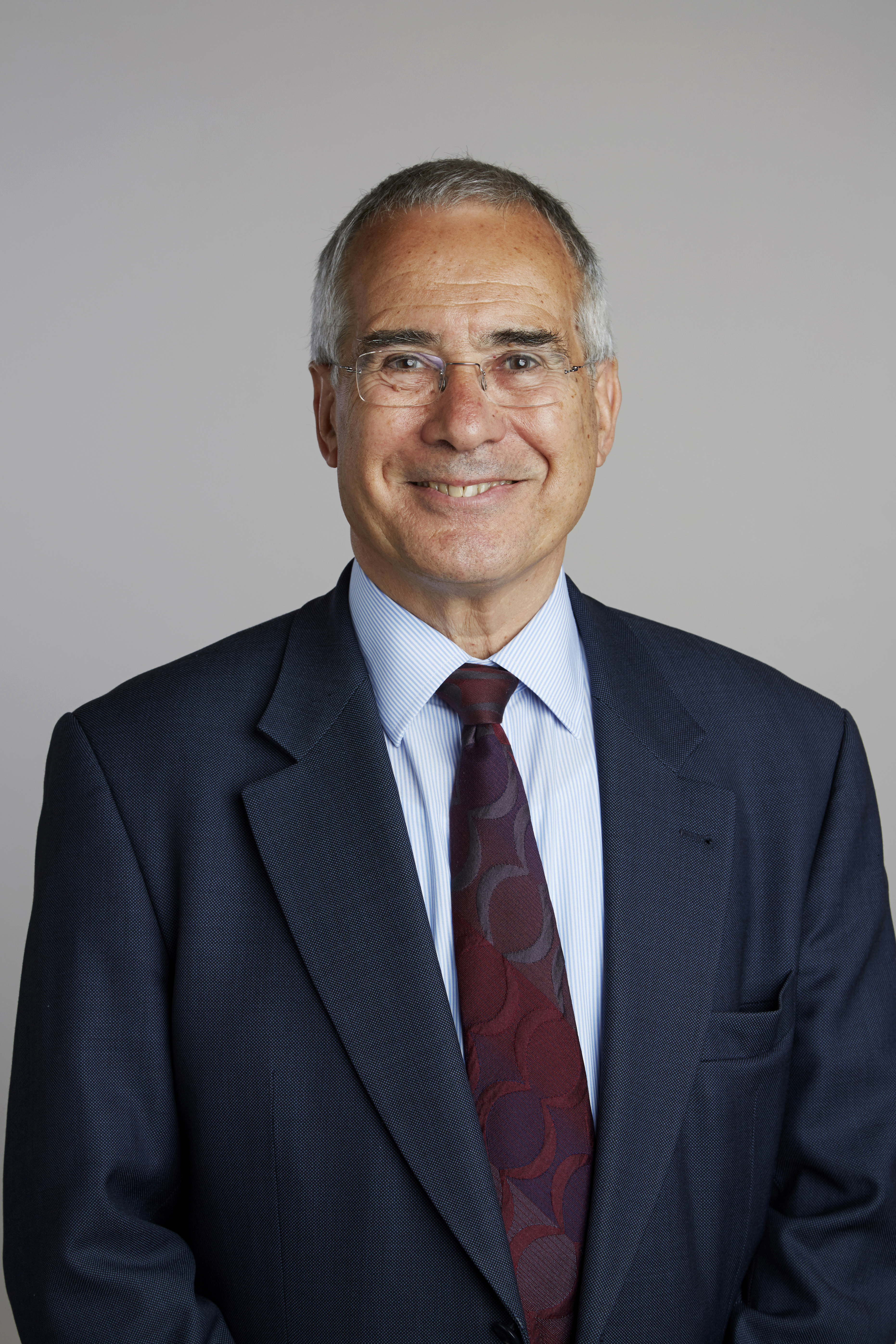 Lord Stern is I. G. Patel Professor of Economics and Government and Chairman of the Grantham Research Institute on Climate Change and the Environment at the London School of Economics. He has been President of the British Academy since 2013, and was elected Fellow of the Royal Society in 2014. From 1969 to 1993, he held academic posts at universities in the United Kingdom and abroad. He was Chief Economist at both the World Bank (2000–2003) and the European Bank for Reconstruction and Development (1994–1999). Lord Stern was Head of the UK Government Economic Service 2003–2007 and led the Stern Review on the Economics of Climate Change, published in 2006. He was knighted for services to economics in 2004 and made a cross-bench life peer as Baron Stern of Brentford in 2007. His most recent book is Why Are We Waiting? The Logic, Urgency and Promise of Tackling Climate Change (2015). Attribution: The Royal Society